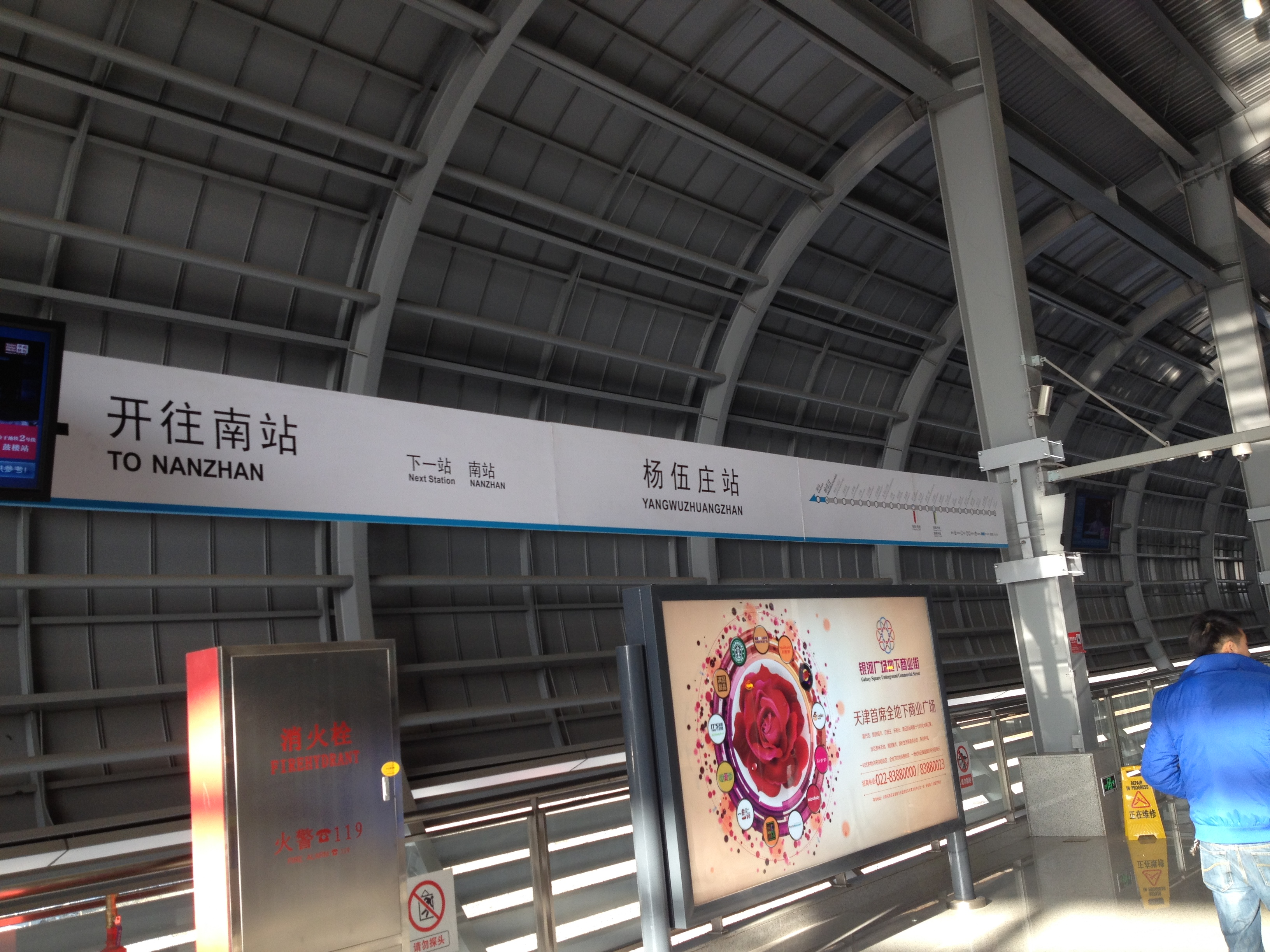 Sign of Tianjin Metro YANGWUZHUANG Station